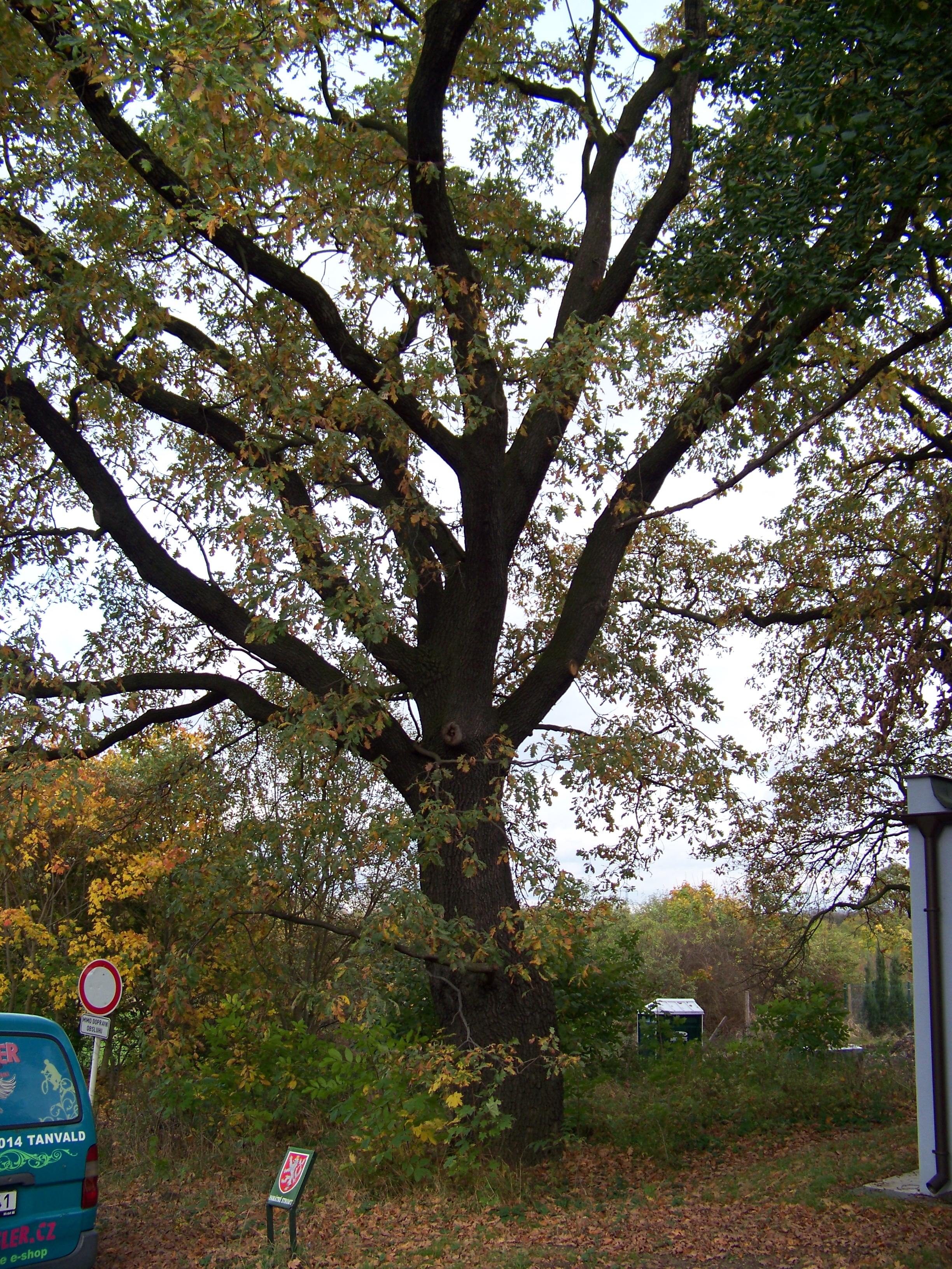 Prague-Hostavice, Czech Republic. Farská street, a memorable oak.